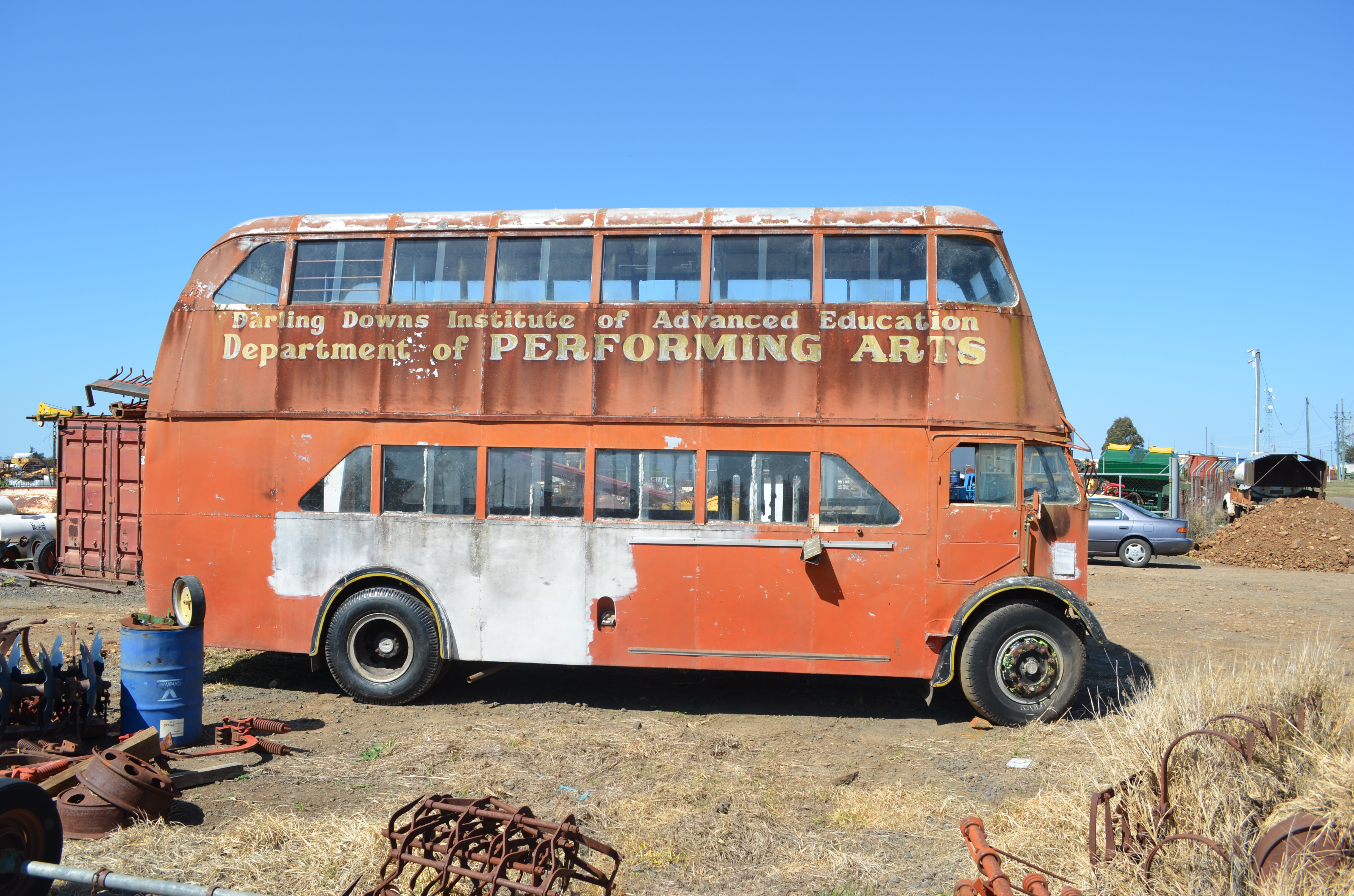 Double decker bus still bearing its original Darling Downs Institure of Advanced Education livery. Photographed in early September 2012 before being retrieved from Dalby (Queensland) for restoration by the University of Southern Queensland and the Southern Queensland Institute of Technology.